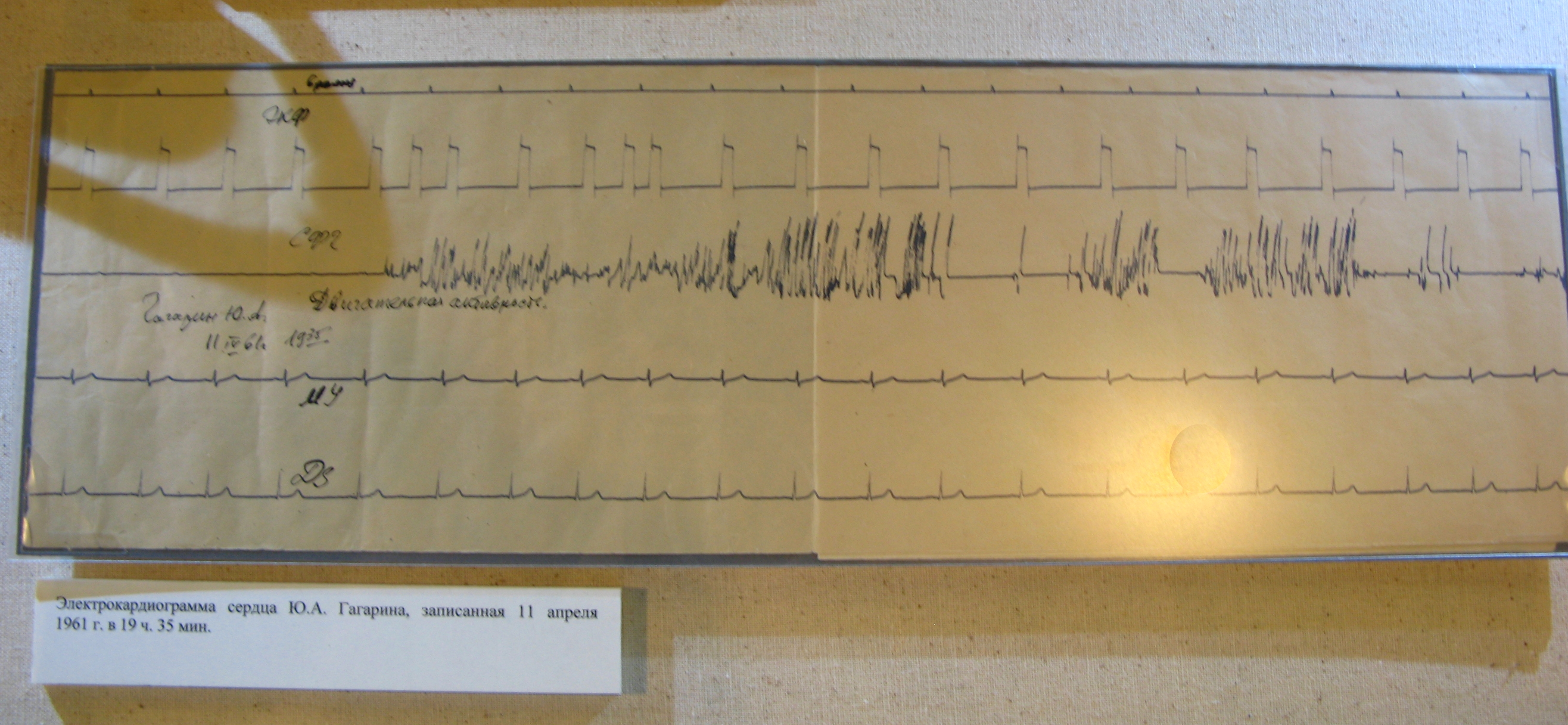 Jurij Gagarin cardiogram a day before first manmade spaceflight in history, recorded on 11. April 1961.